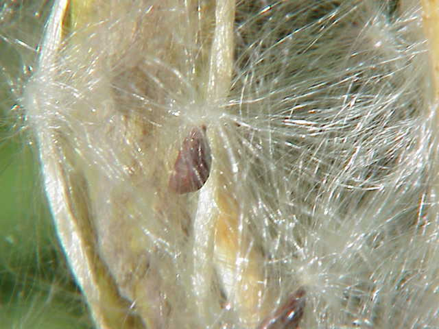 Species: Asclepias curassavica Family: Asclepiadaceae Image No. 1